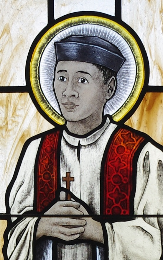 Saint Paul Catholic Church (Westerville, Ohio), stained glaas window, Saint Andrew Dung Lac